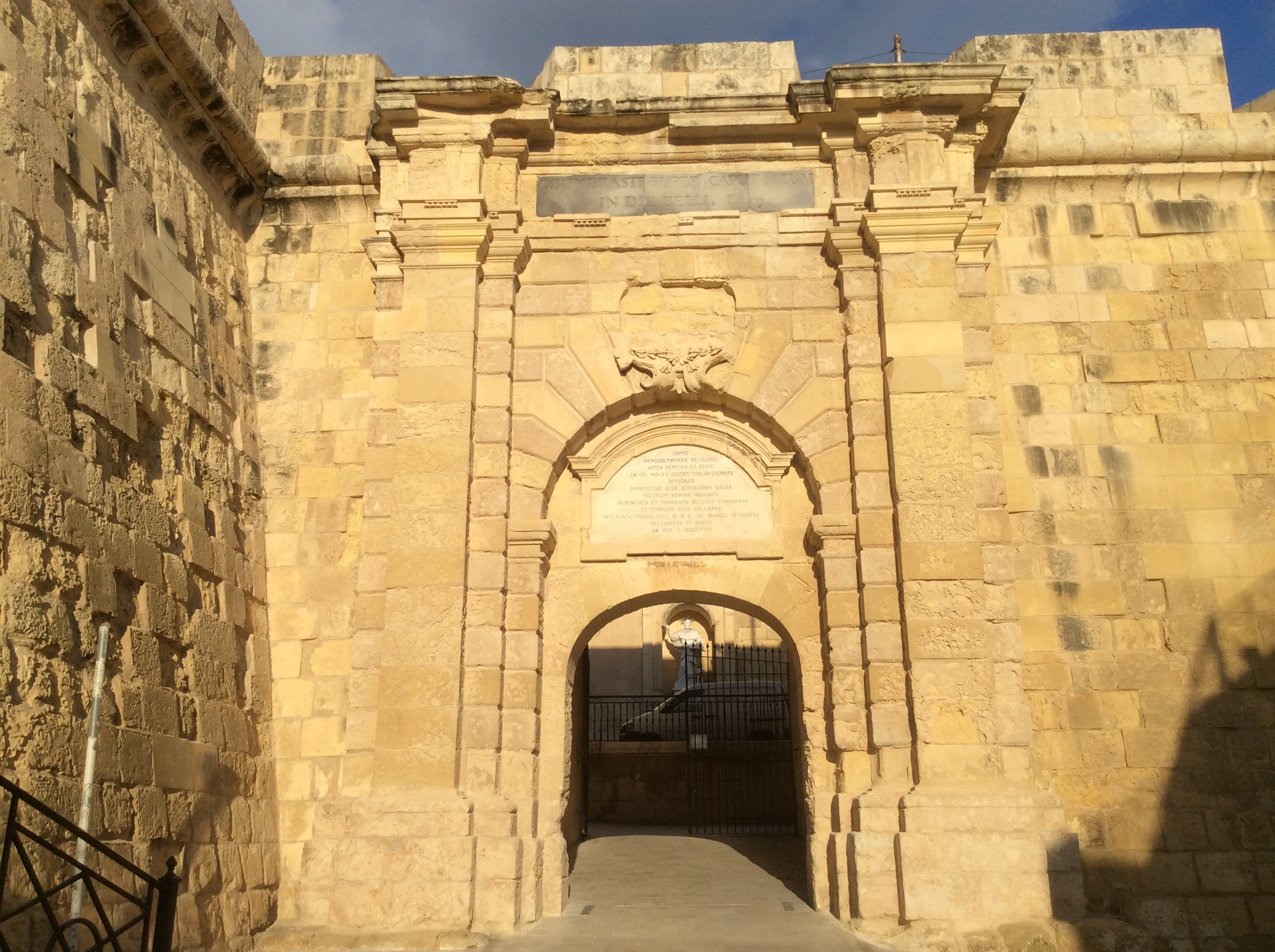 Birgu.arch 4